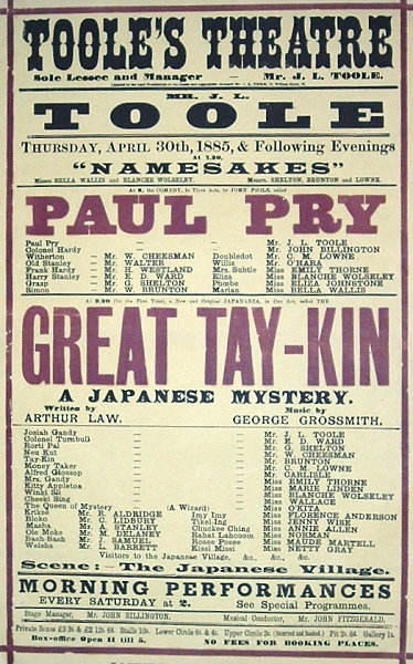 Scan of original 1885 poster for The Great Tay-Kin by Arthur Law and George Grossmith at Toole's Theatre